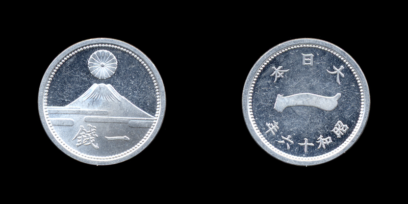 1sen-S16